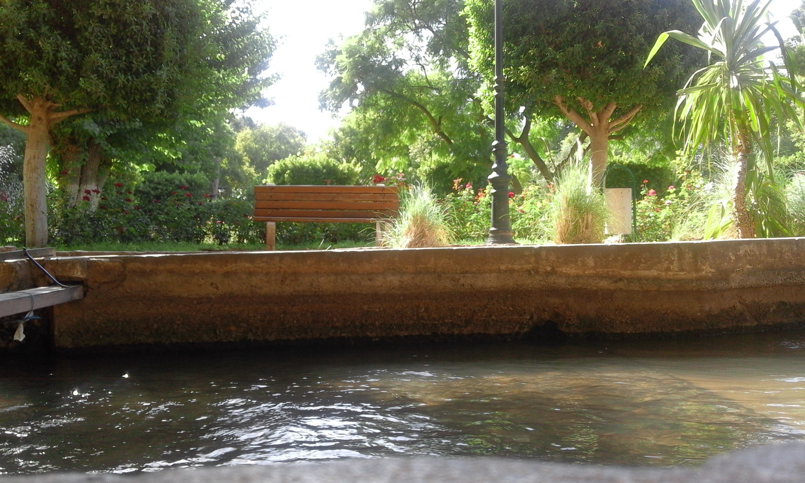 among the richest places of nature I advise you to visit it